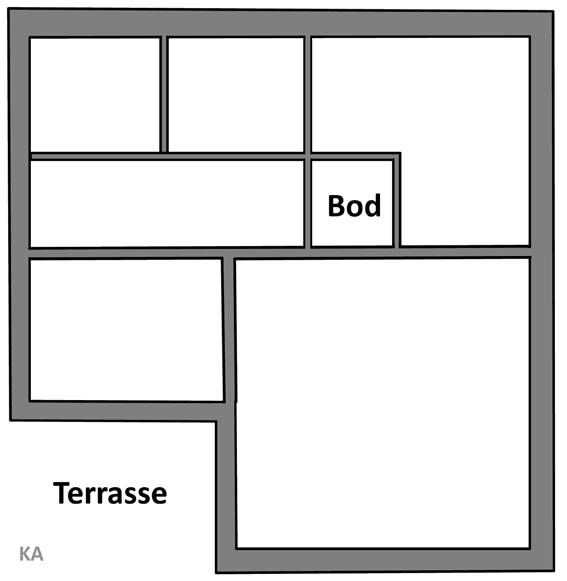 Measuring_Construction_Area_Norway